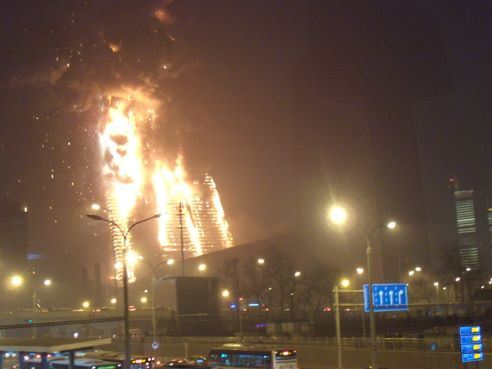 CCTV is fire!